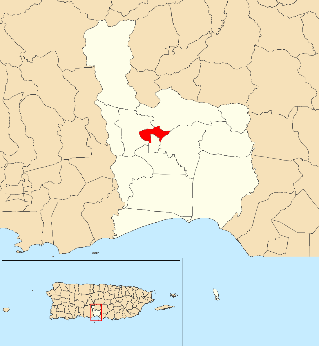 Lomas, Juana Díaz, Puerto Rico locator map